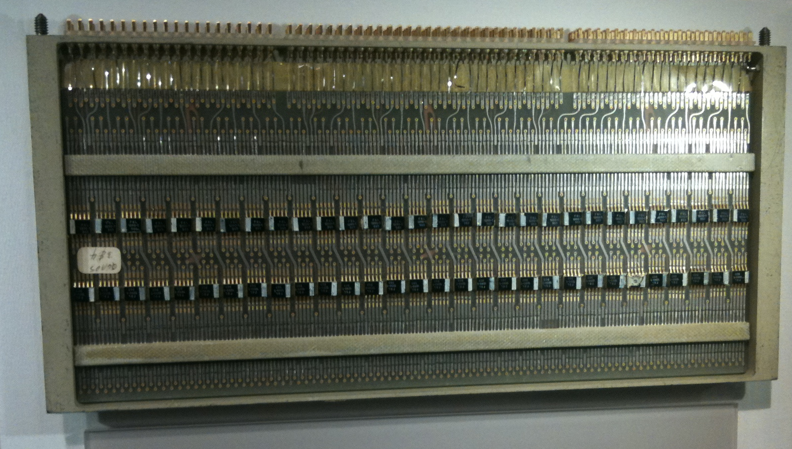 Apollo Guidance Computer logic module, 1962. This prototype for the AGC Block I design was built by Raytheon Corporation and is on exhibit at the Computer History Museum.